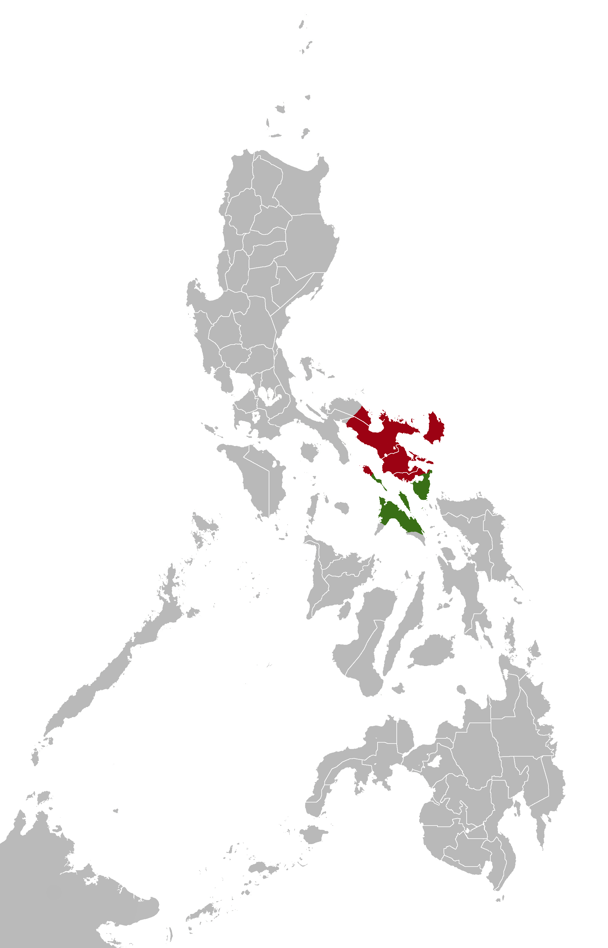 Geographic extent of Bikol languages (including Bisakol) based on Ethnologue maps